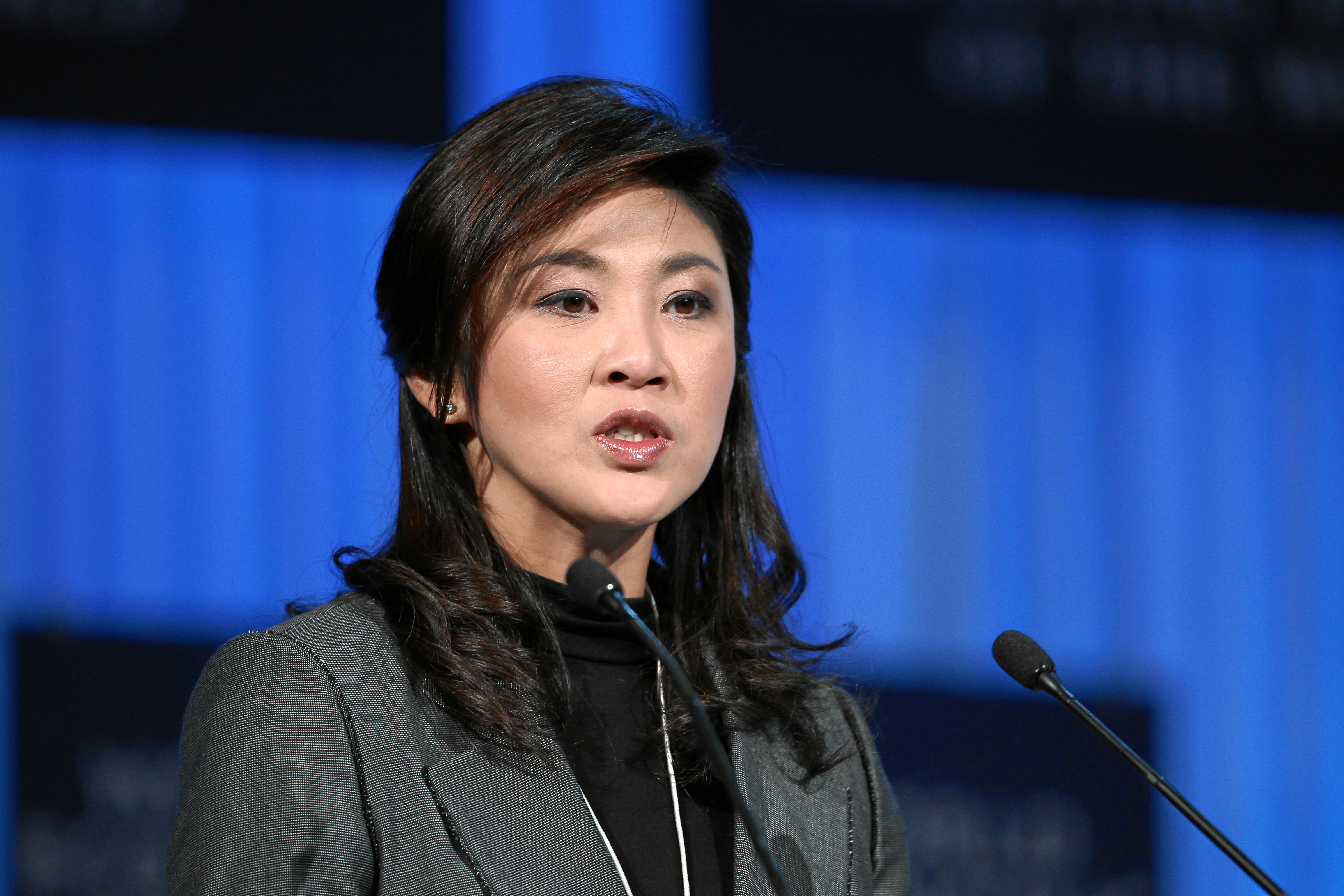 DAVOS/SWITZERLAND, 27JAN12 - Yingluck Shinawatra, Prime Minister of Thailand is captured during the session 'Women as the Way Forward' at the Annual Meeting 2012 of the World Economic Forum at the congress centre in Davos, Switzerland, January 27, 2012. Copyright by World Economic Forum by Moritz Hager